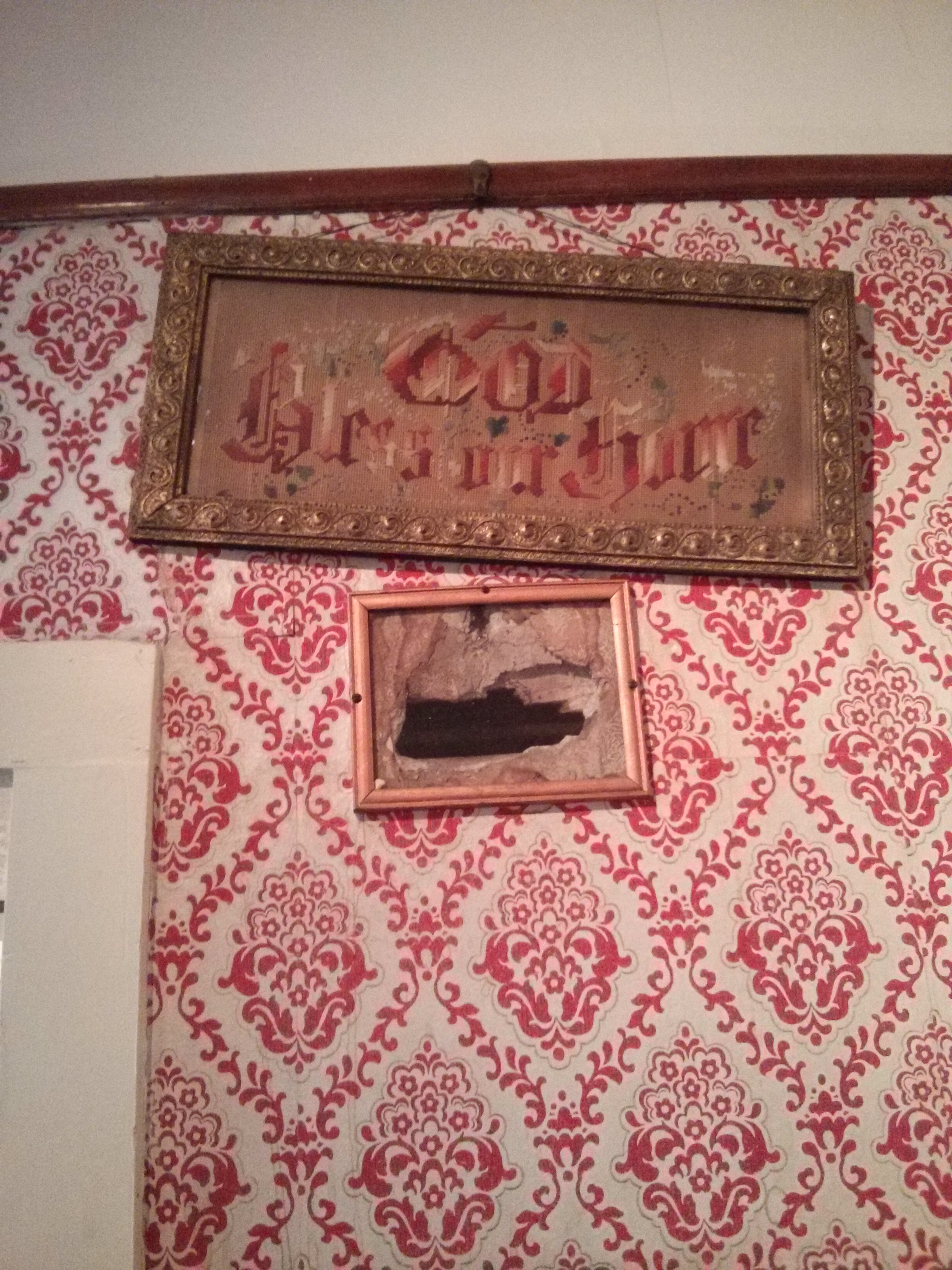 Hole in the wall originally from the shot that killed Jesse James. Later tourists damaged the wall further by taking souvenirs.